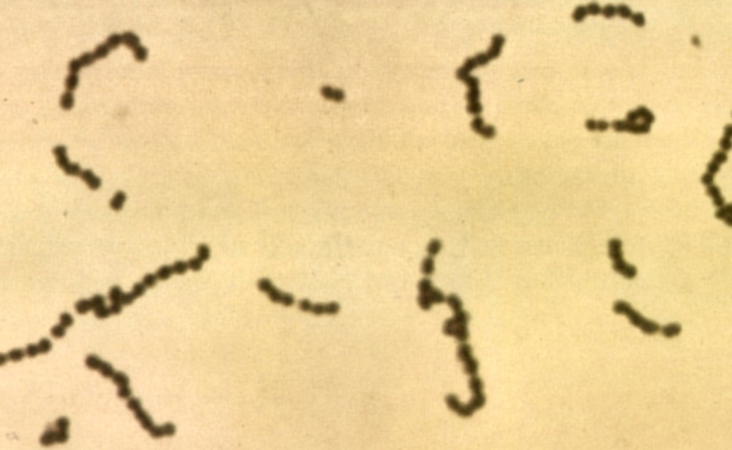 Gram-stained smear of streptococci